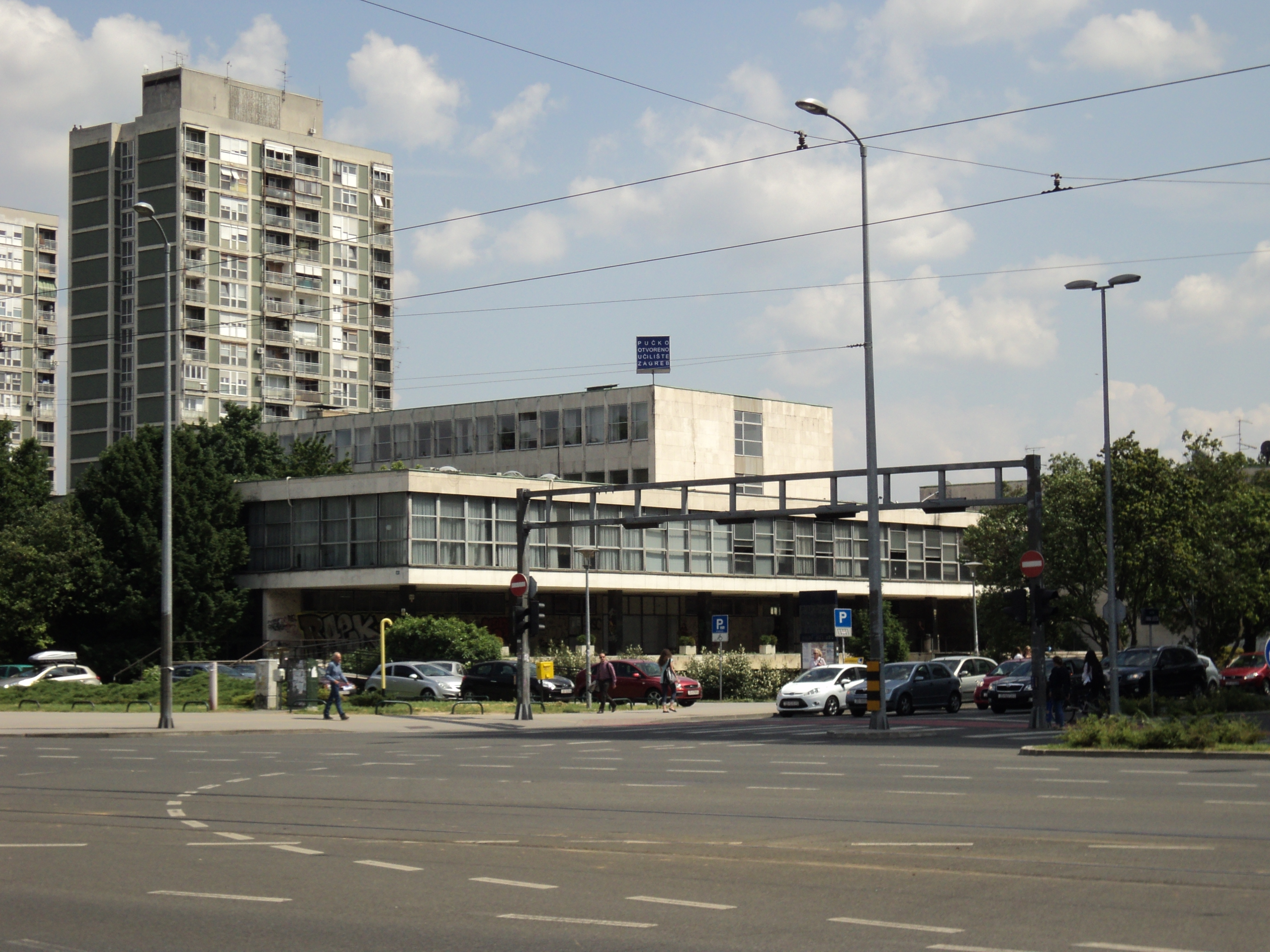 Building of Pučko otvoreno učilište (former Workers' university of Moša Pijade) in Vukovarska street, Zagreb. Designed by Radovan Nikšić and Ninoslav Kučan, built in 1956-1961.